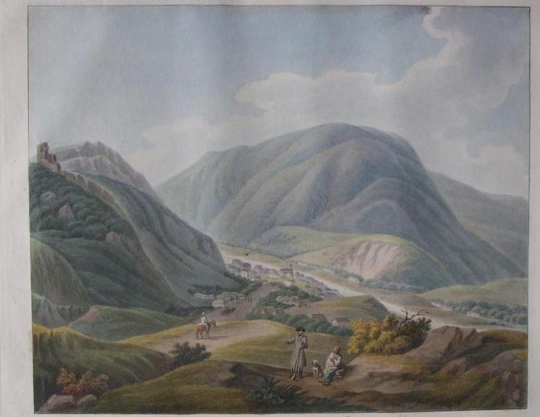 landscape with Mehadia village in the Banat Region